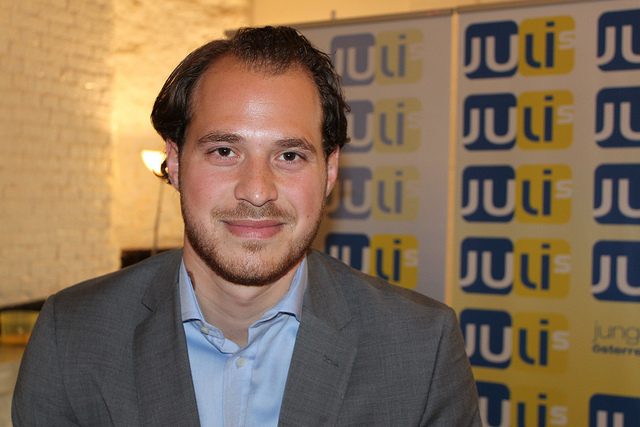 Nikolaus Scherak, Chairman of Young Liberals Austria